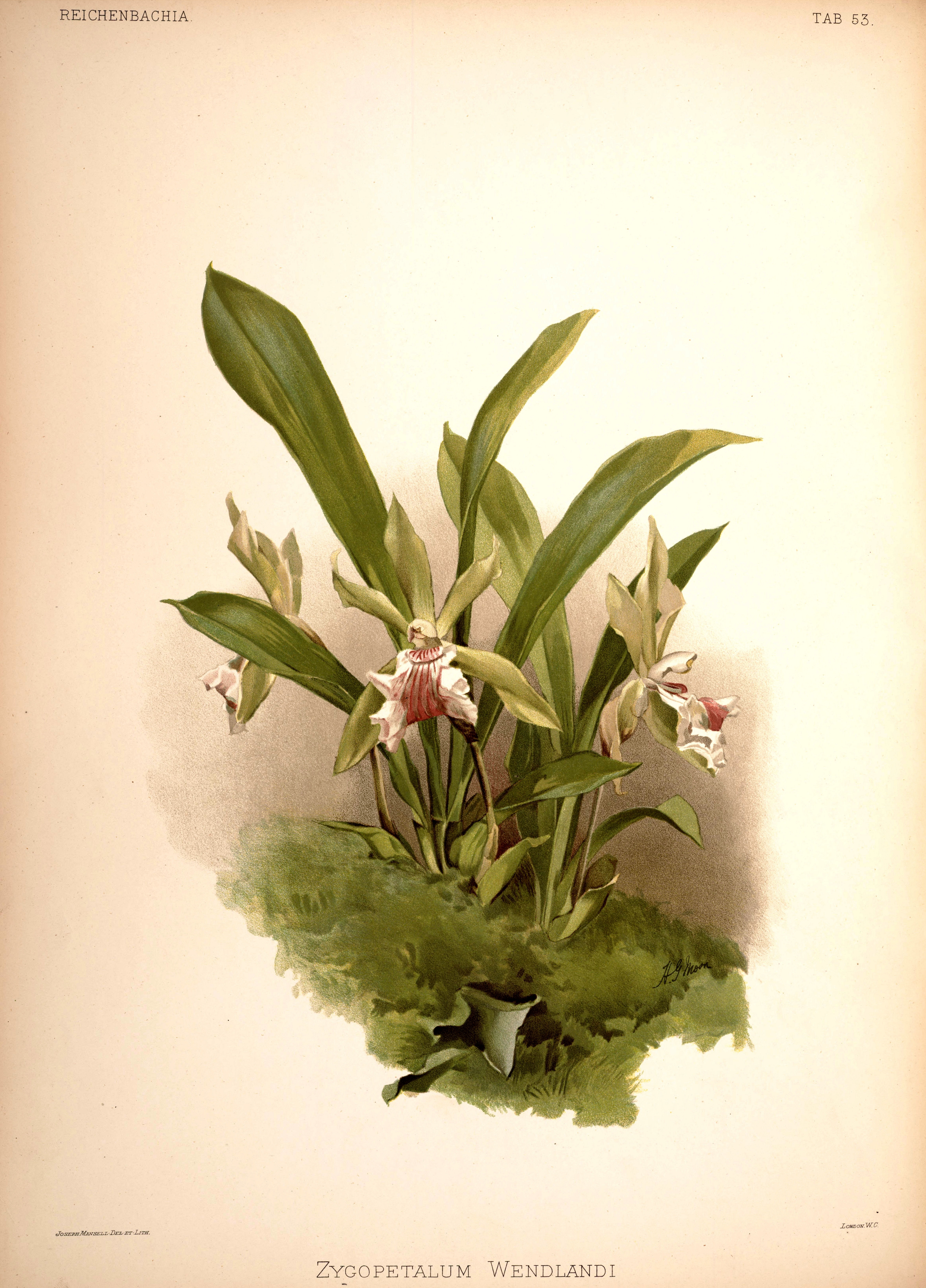 Cochleanthes aromatica, syn.: Zygopetalum wendlandii